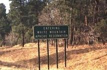 Entering White Mountain Apache Indian Reservation